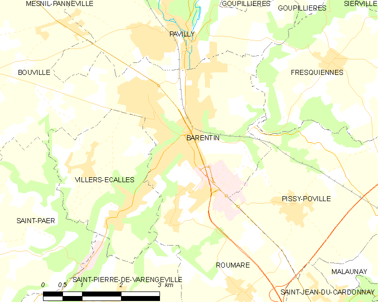 Map of French municipality Barentin